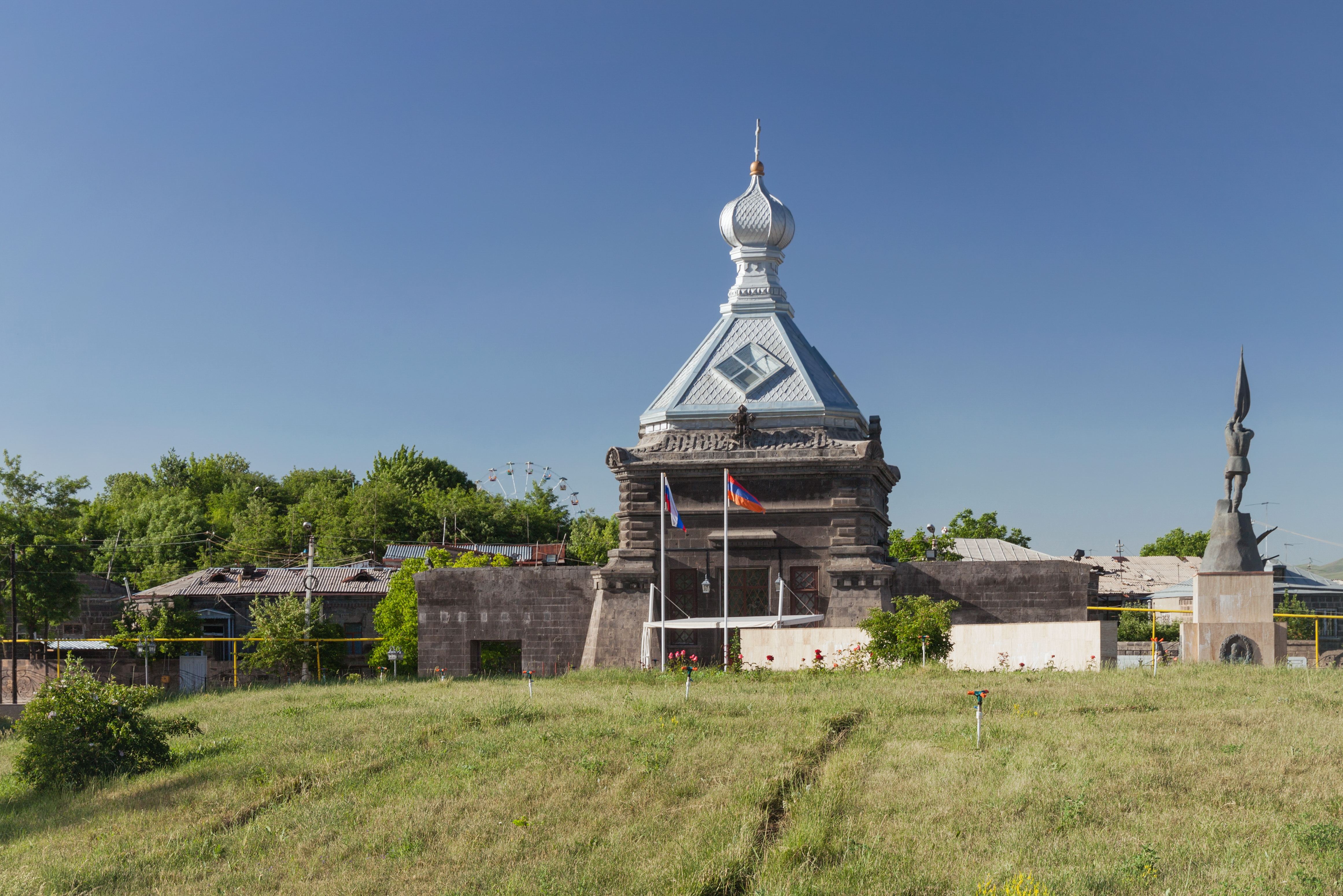 Saint Michael the Archangel Church. Gyumri, Shirak Province, Armenia.